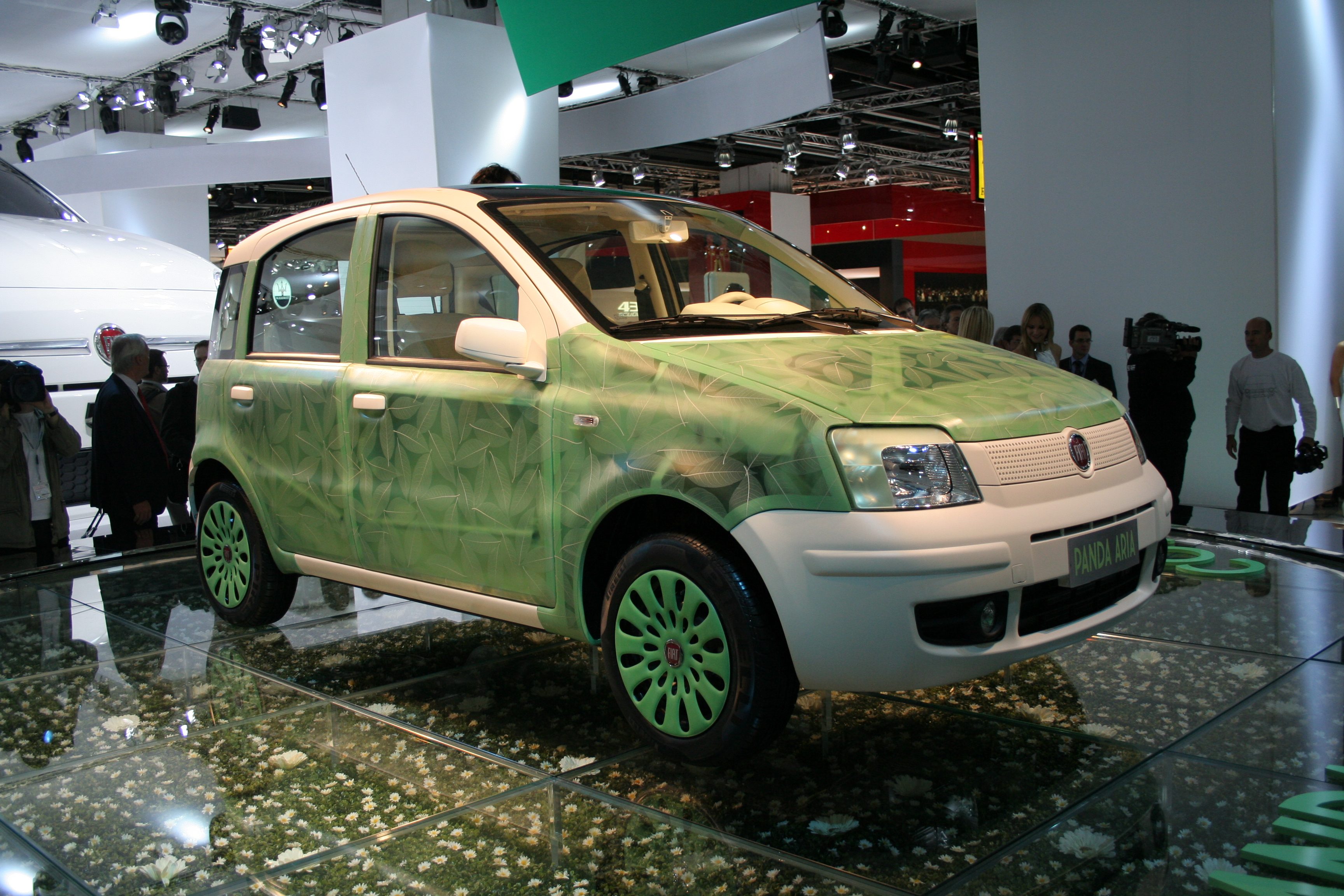 Image from IAA 2007 in Frankfurt am Main